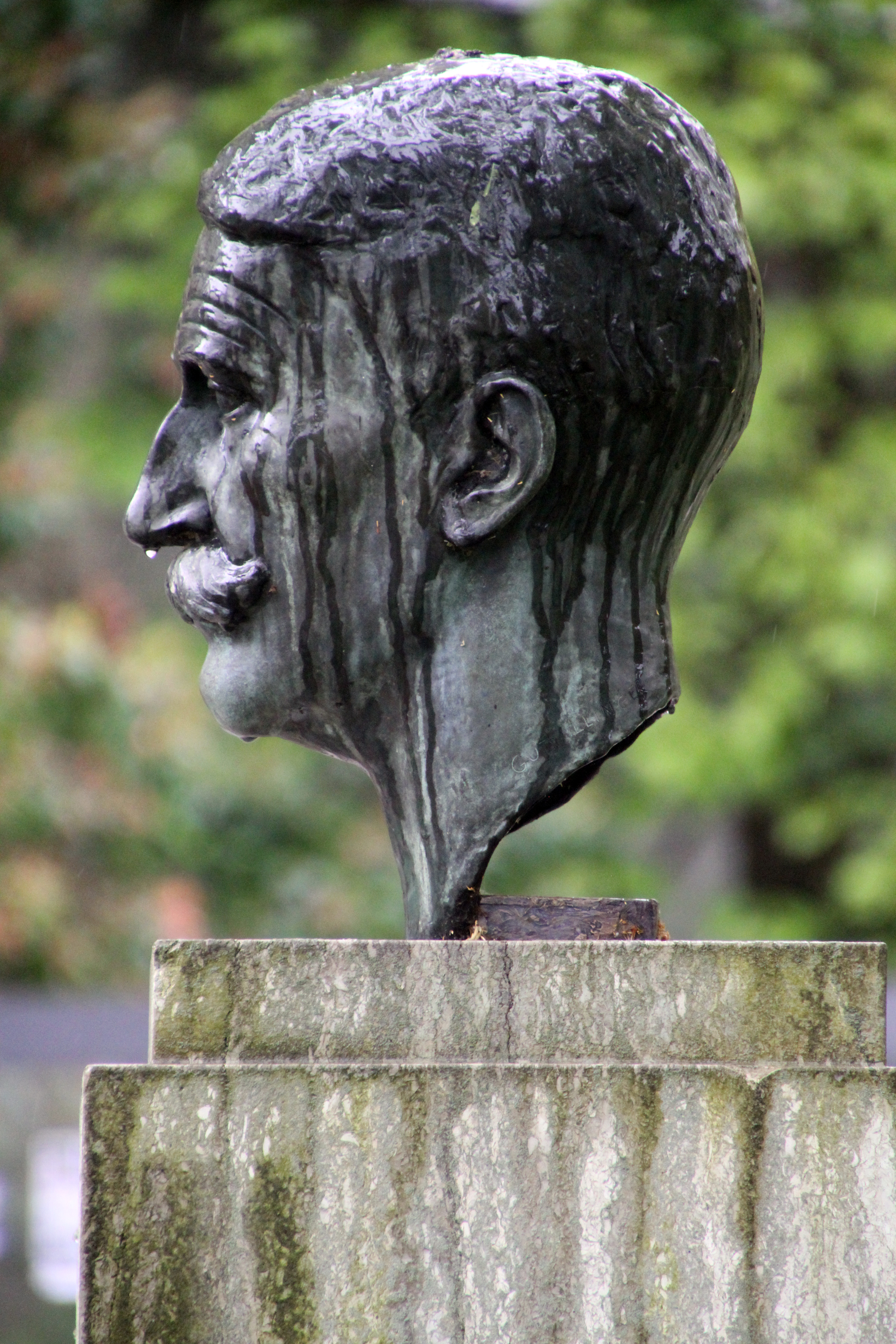 Bust of Pierre de Coubertin (1863-1937), founder of the modern Olympics, at the Augustaplatz in Baden-Baden, built in 1938.